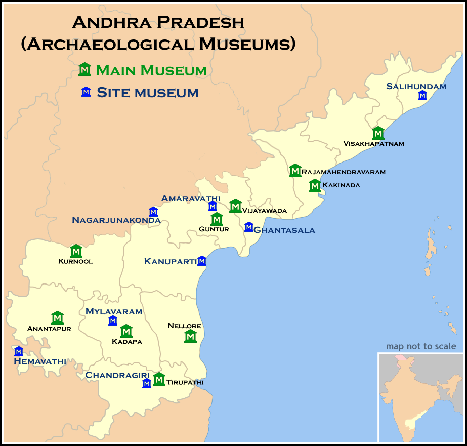 Map of the Archaeological Museums (as of 31-01-2017) in the state of Andhra Pradesh. Note: The map is created for information and educational purposes. People using the map outside Wikipedia projects are requested to attribute it properly.